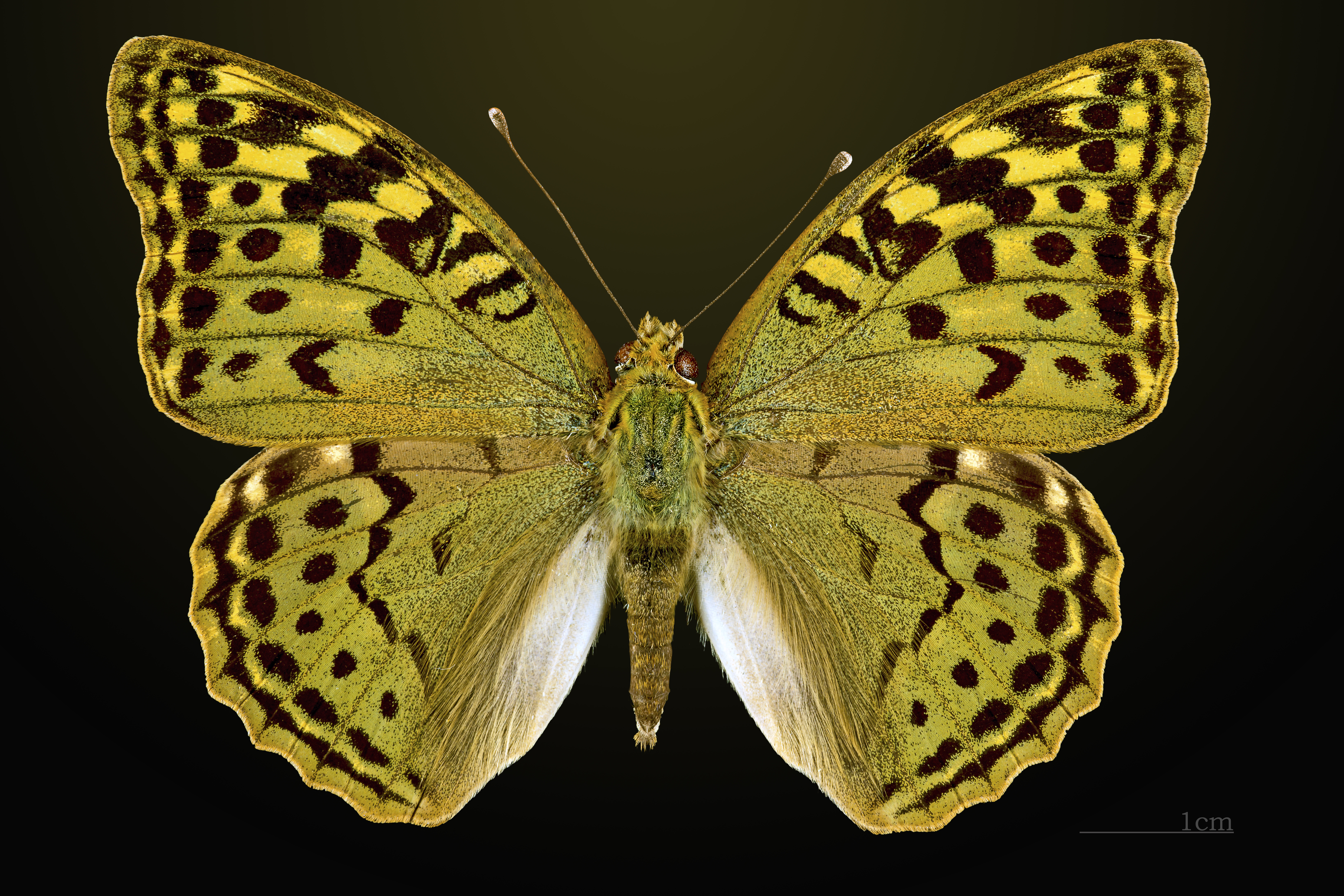 Cardinal - ♀ Dorsal side Locality: El Vallecillo (1400 m), Sierra de Albarracín, Teruel, Spain